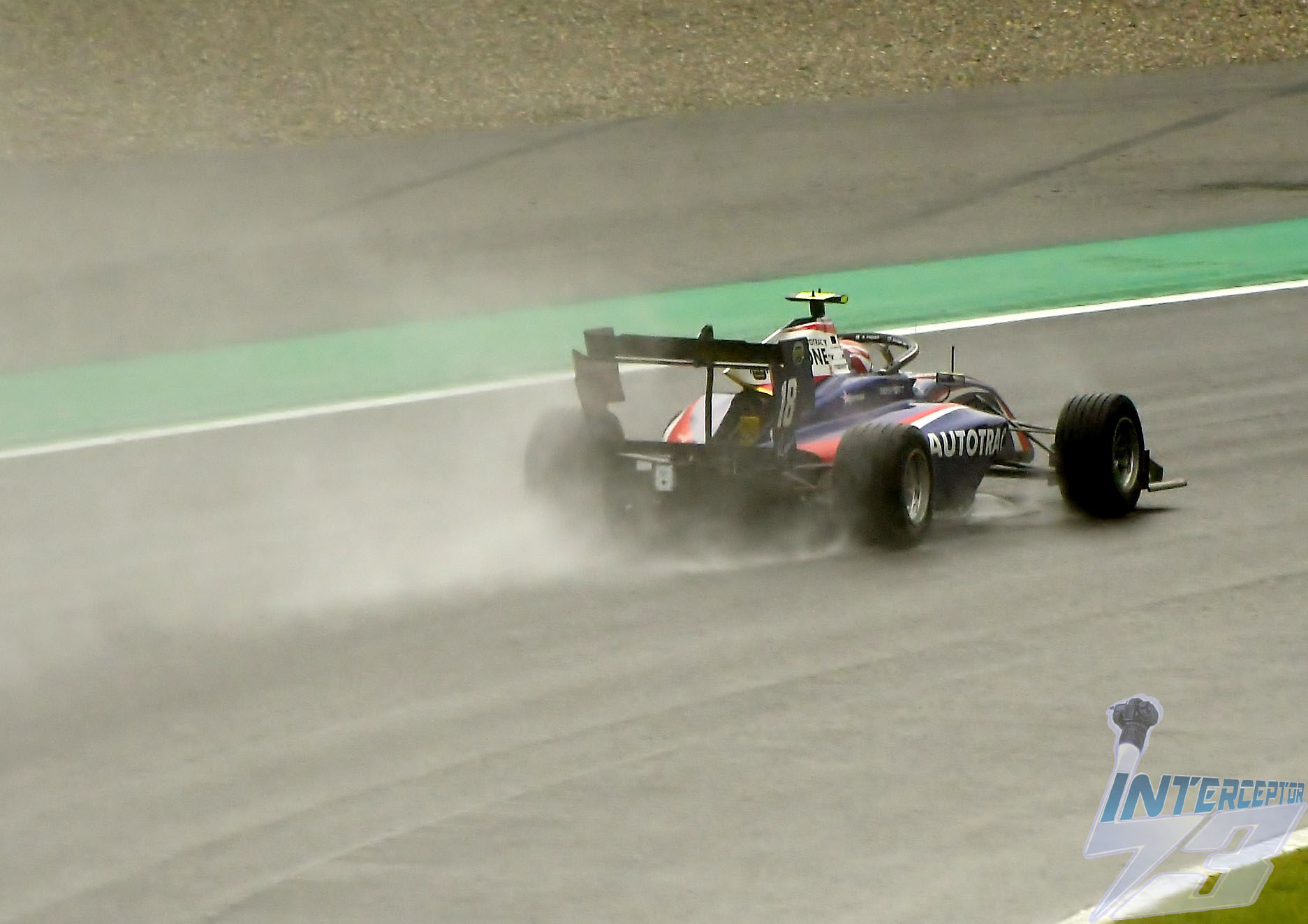 Pedro Piquet, Trident Dallara F3 2019, 2019 FIA Formula 3 Championship, Italian Grand Prix Support Race, Monza, 6th September